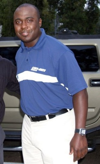 Photo of Marshall Faulk when he was interviewed at KUSI-TV In San Diego Please acknowledge "Phil Konstantin" as the creator of this photograph.